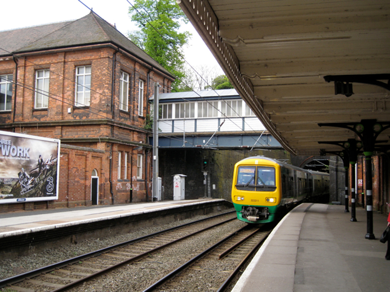 Sutton Coldfield railway station